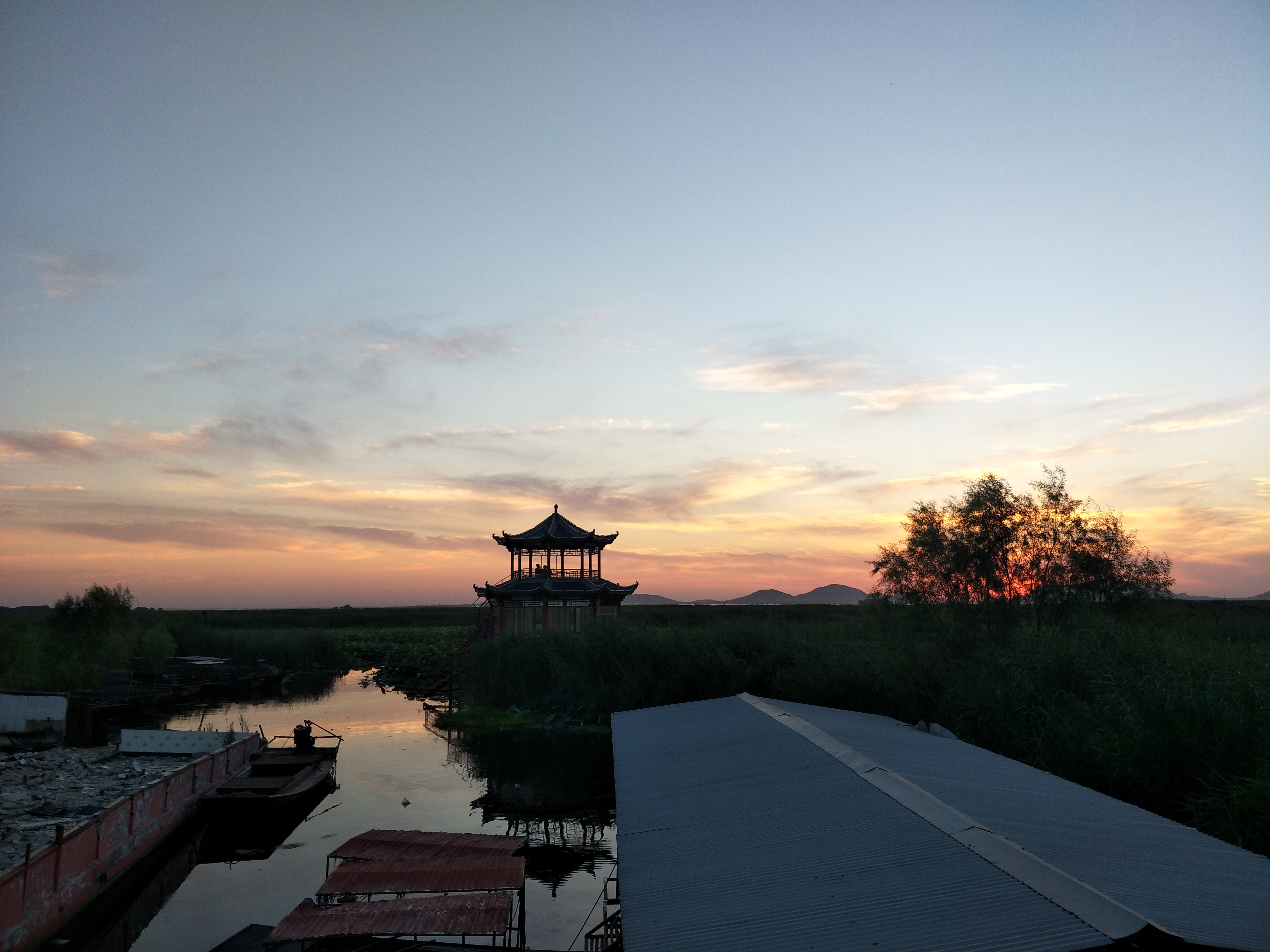 Lakeside of Dongping Lake at dusk.